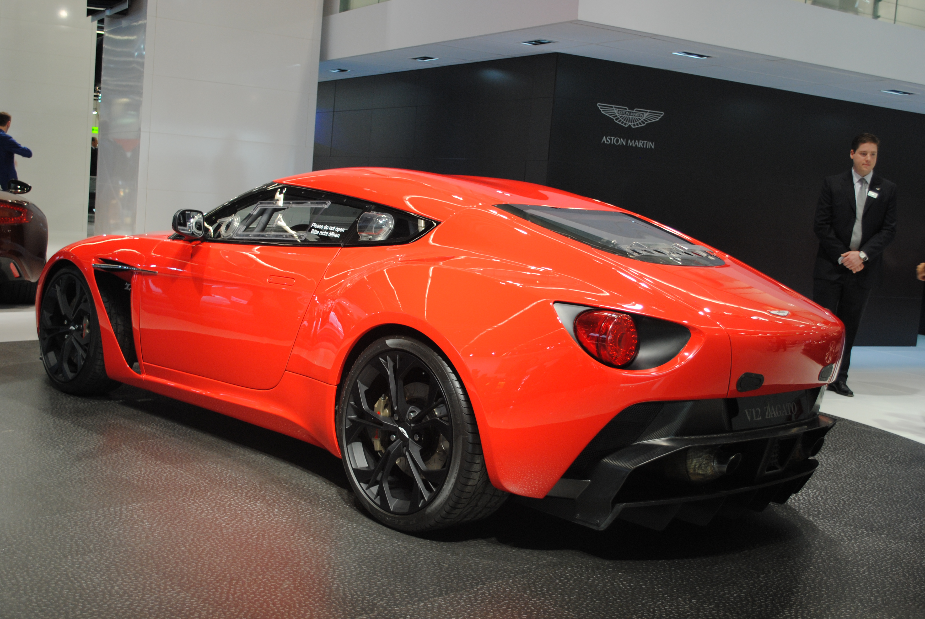 For more info + images, please check